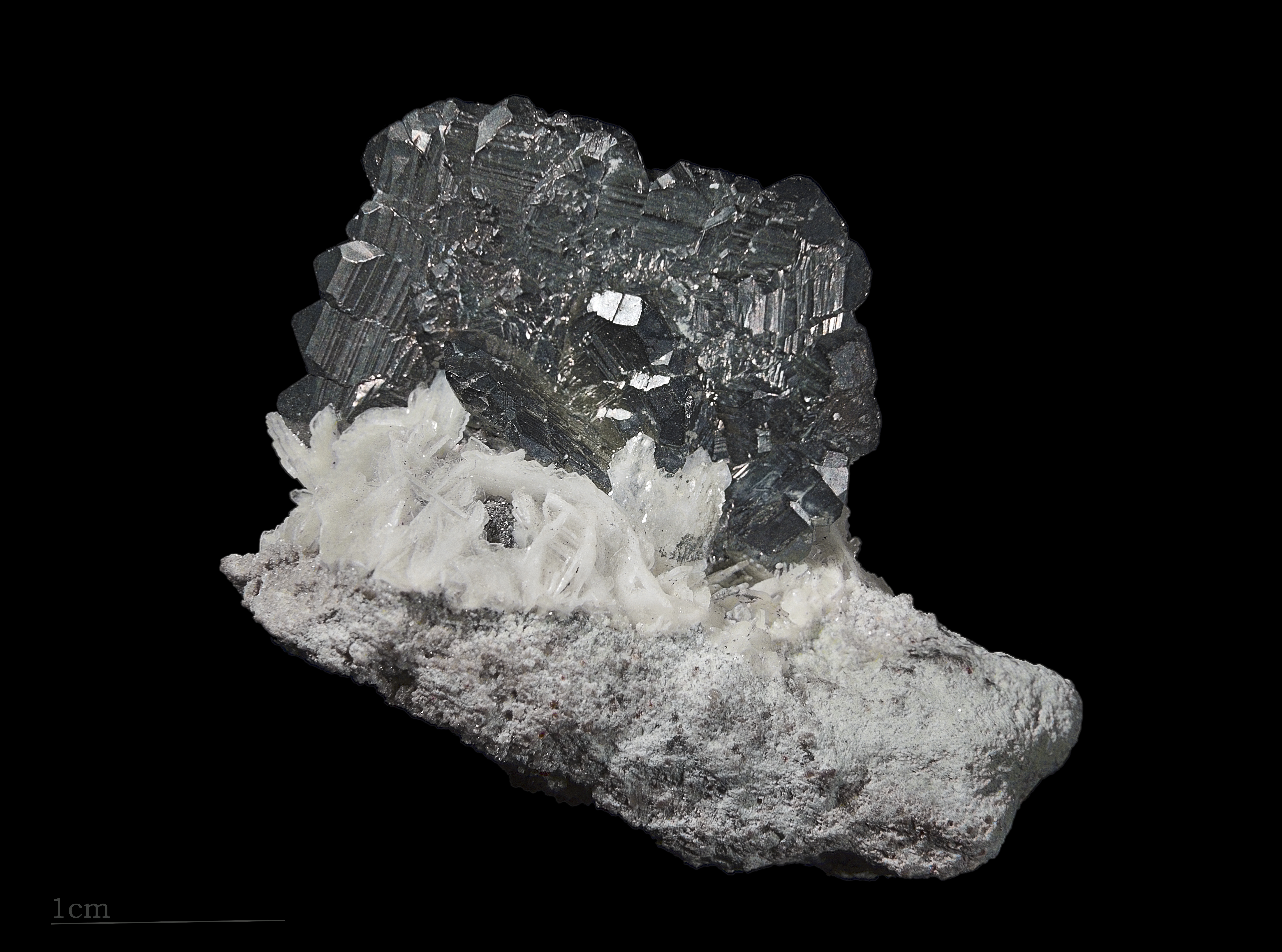 Bournonite - Twin in "cog wheel" typical of the species - Les Malines, Saint-Laurent-le-Minier, Gard France Size of crystal 6 × 5 cm.